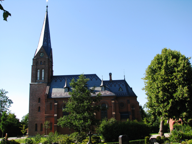 Ev.-Luth. church St. Gallus in Neugalmsbüll, Municipality of Galmsbüll, Germany